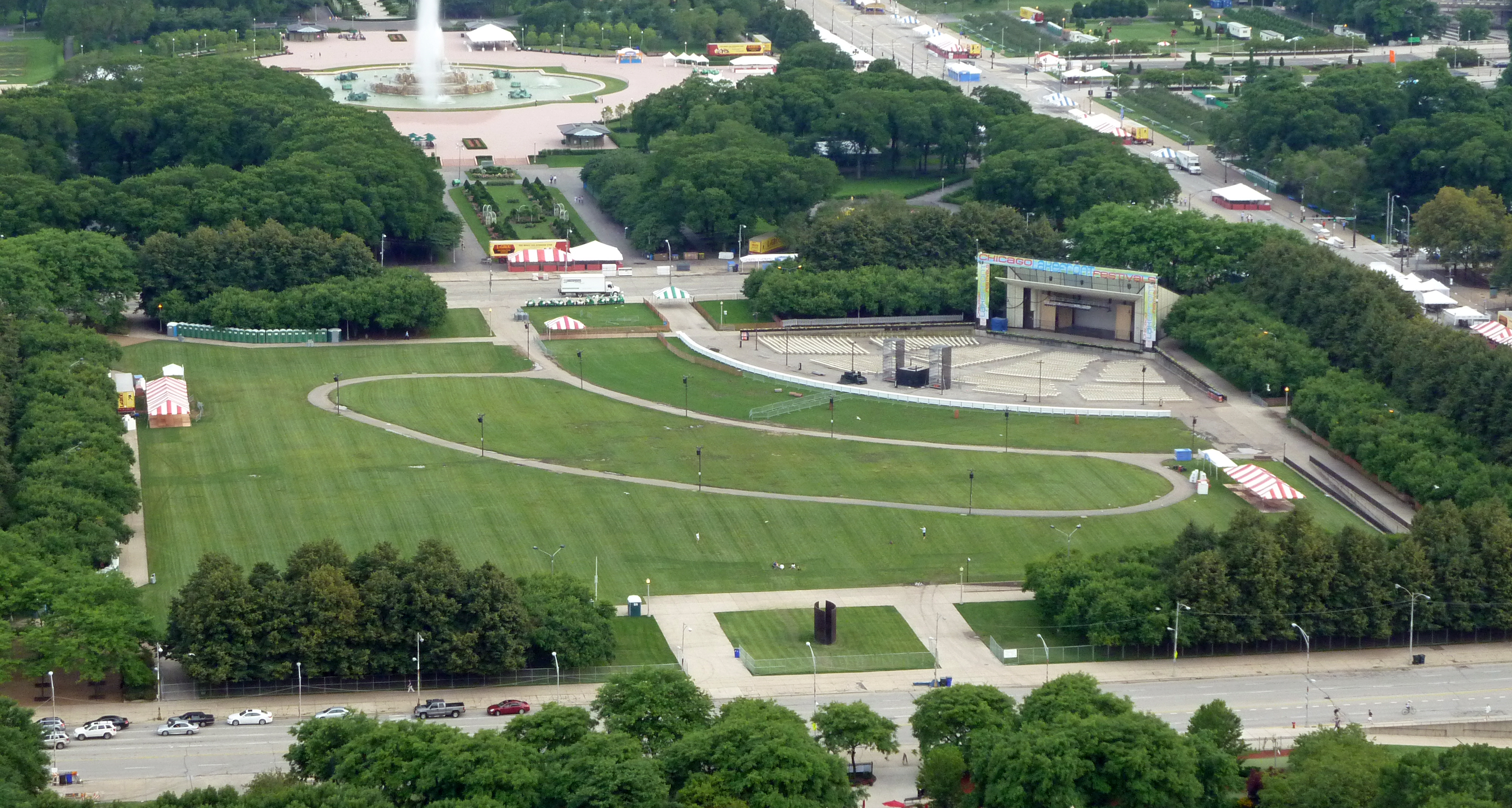 Petrillo lawn